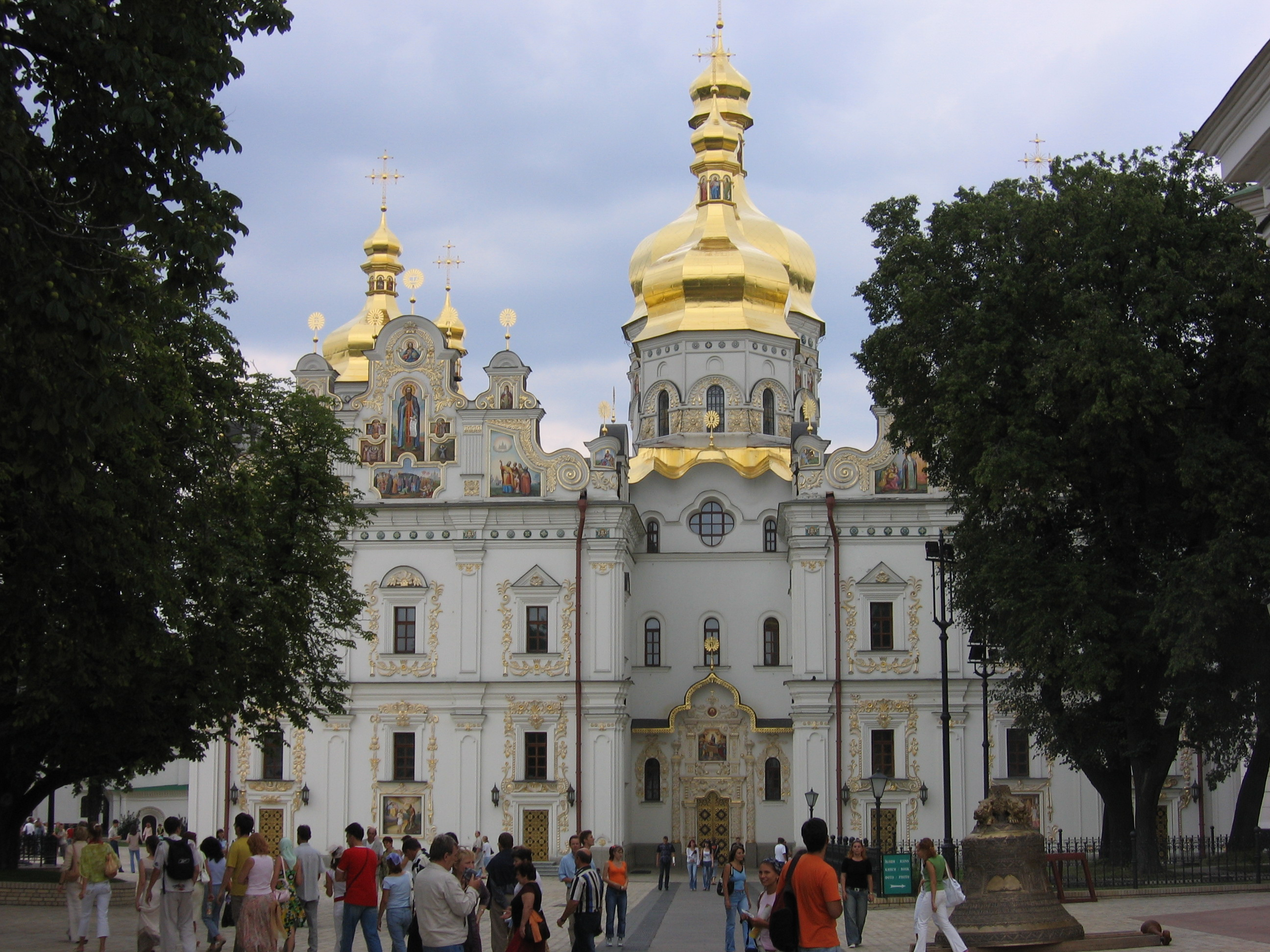 Kiev Pechersk Lavra (Kiev, Ukraine)